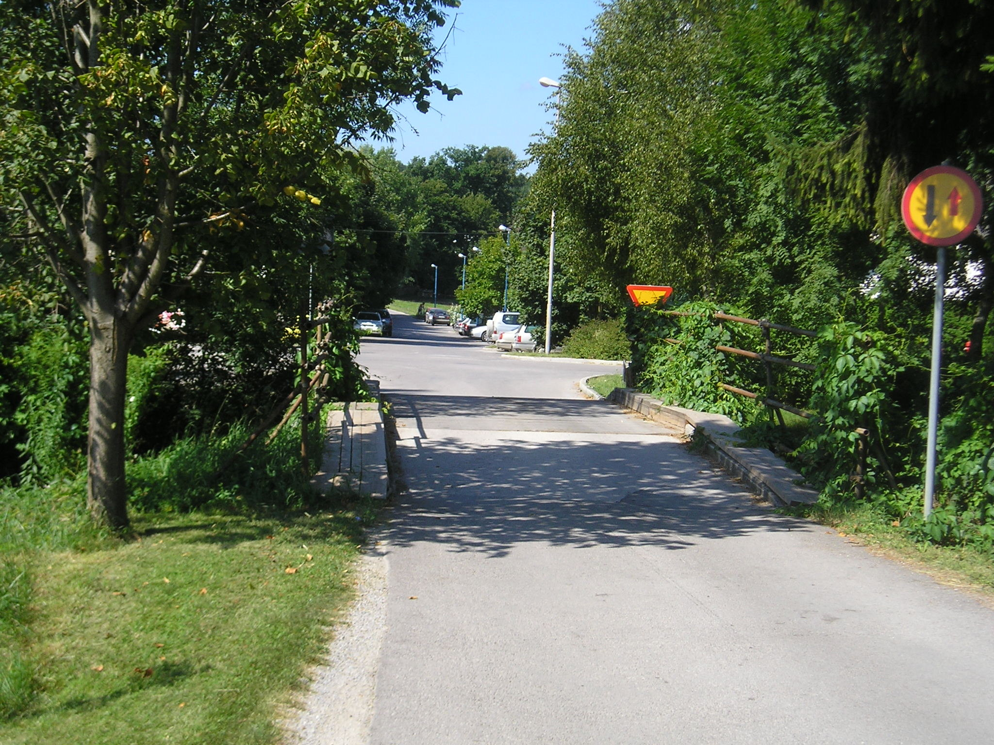 The former railway bridge (now used for road traffic) over the Zrnica in Drenov Grič near Vrhnika, Slovenia